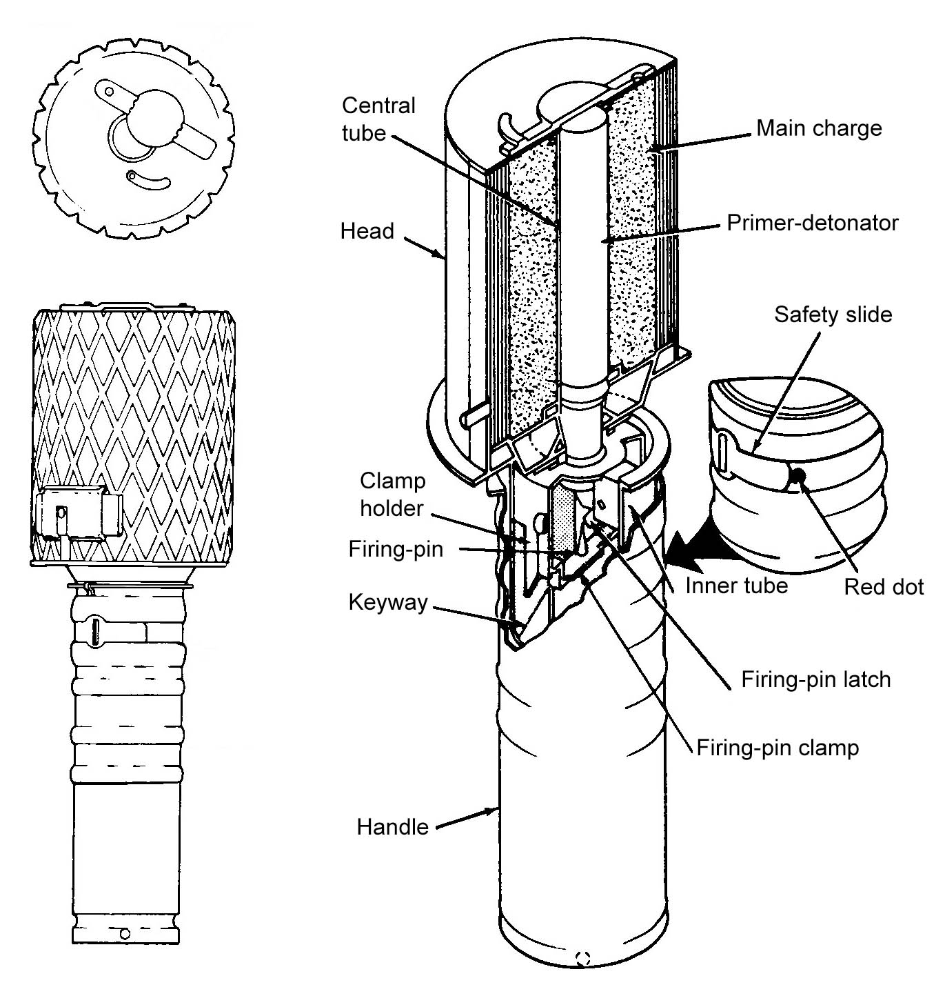 A diagram of a RGD-33 grenade (and fragmentation jacket), and a cutaway showing it's workings.